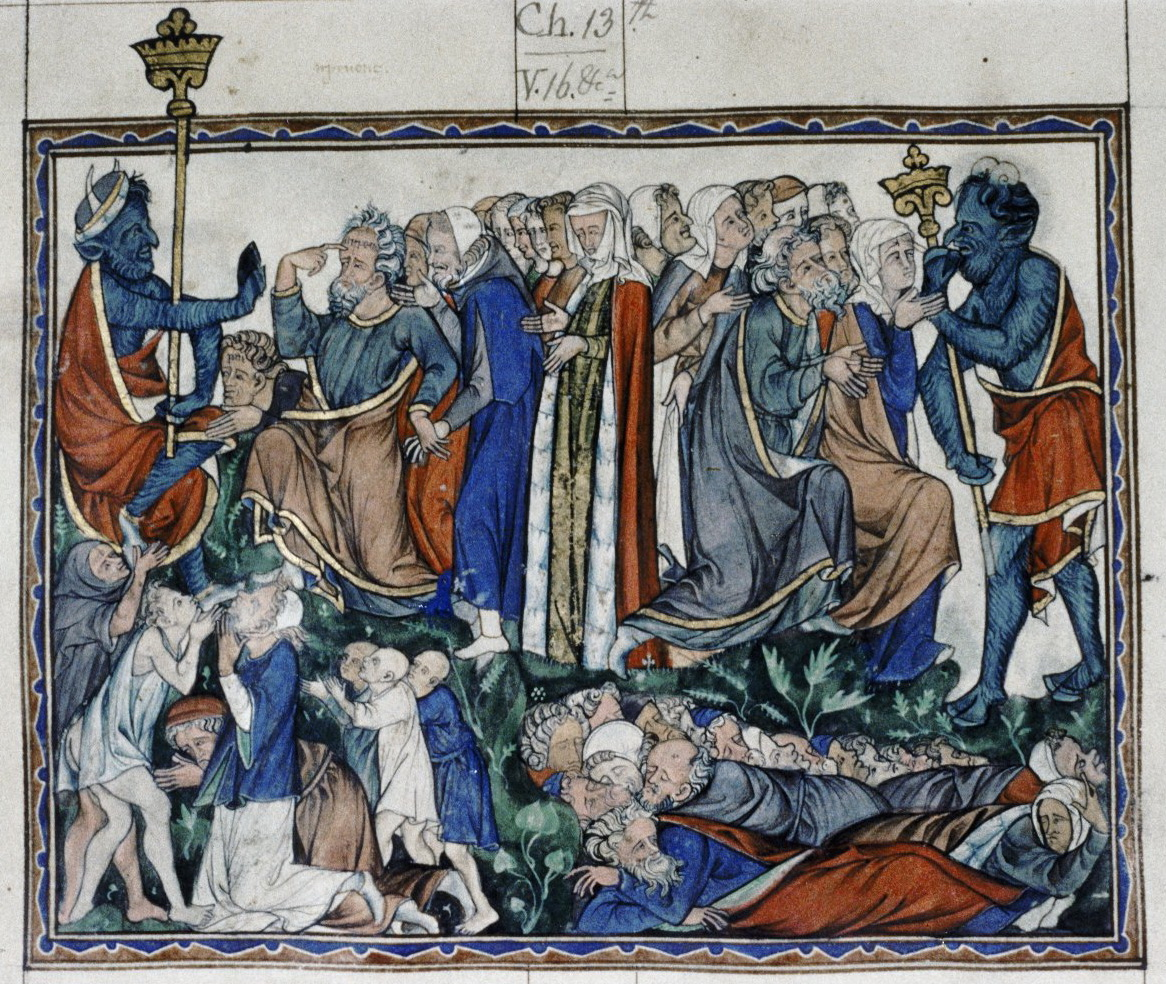 Douce Apocalypse - Bodleian Ms180